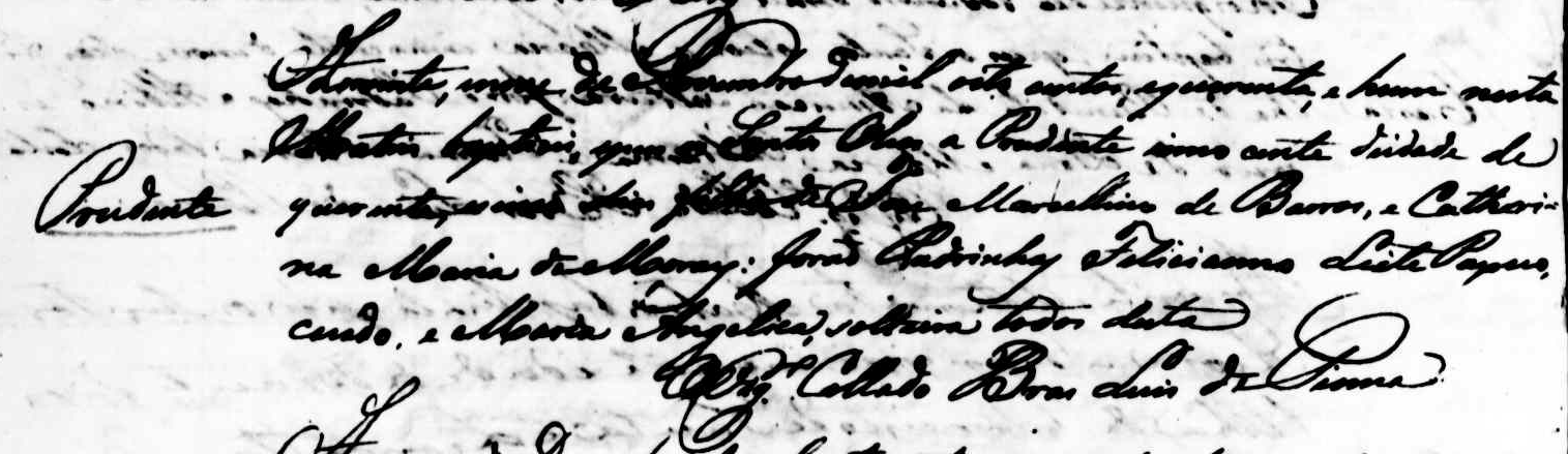 Baptism record of Prudente de Morais, 3rd President of Brazil